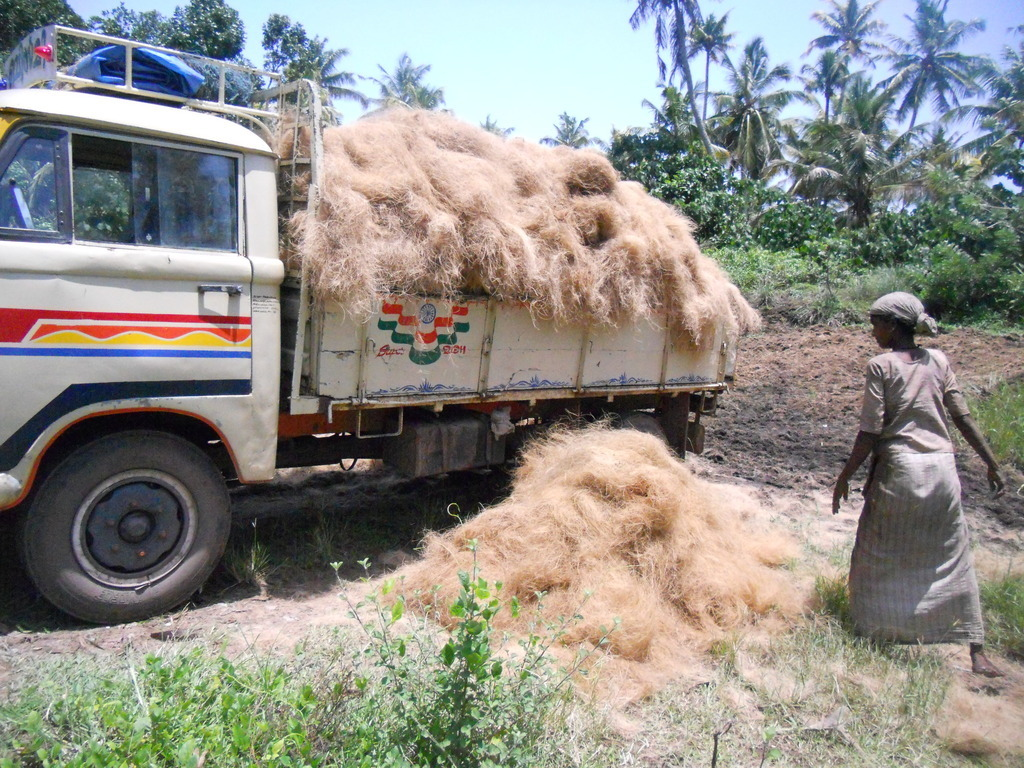 Coir fibers transported This media file is uploaded with India loves Wikipedia event.